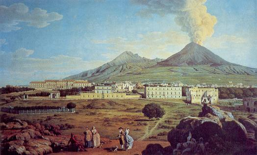 Painting of the Palace of Portici to the left; on the right is the town of Portici.